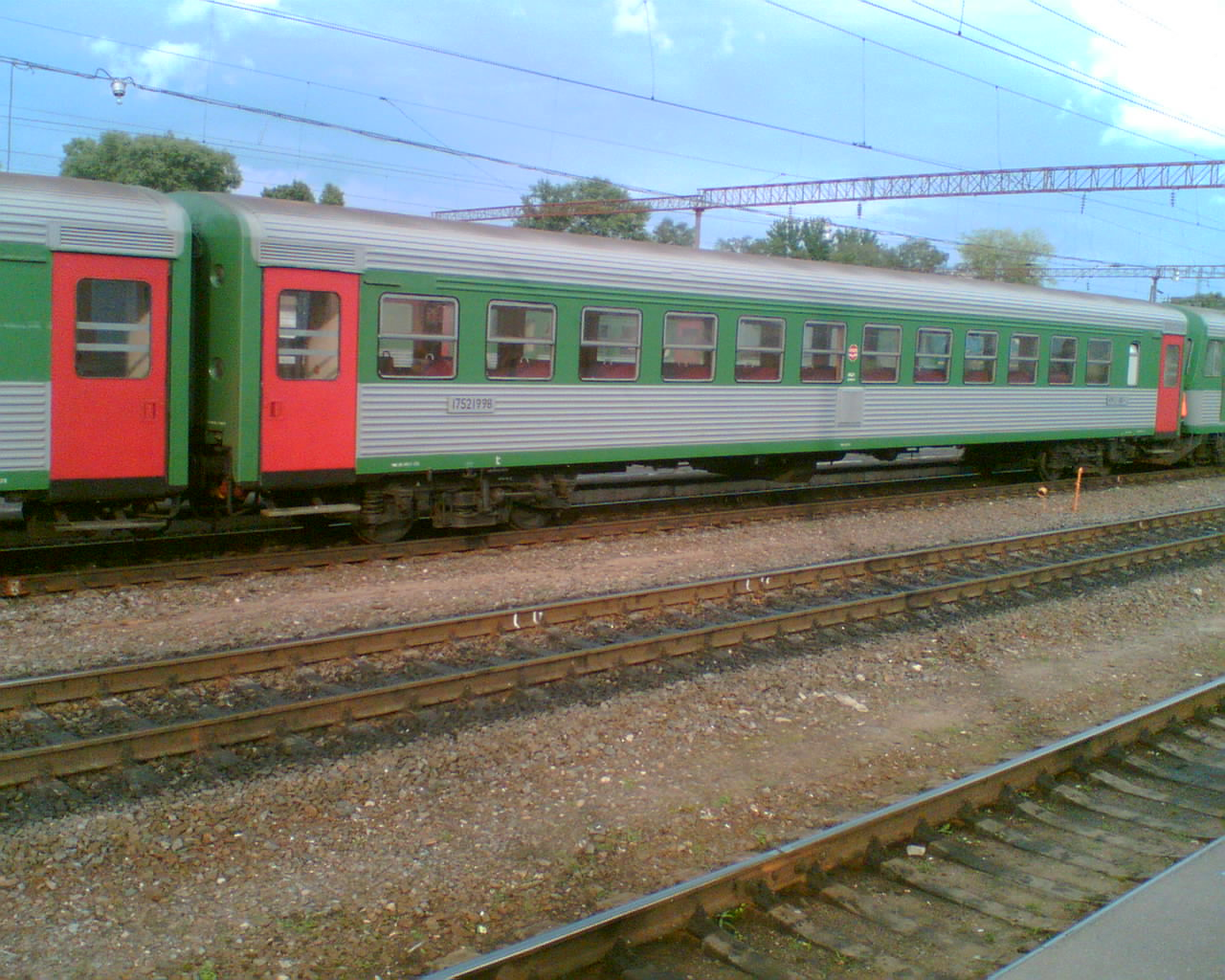 APCh2 trailer car in ACh2/APCh2 DMU train